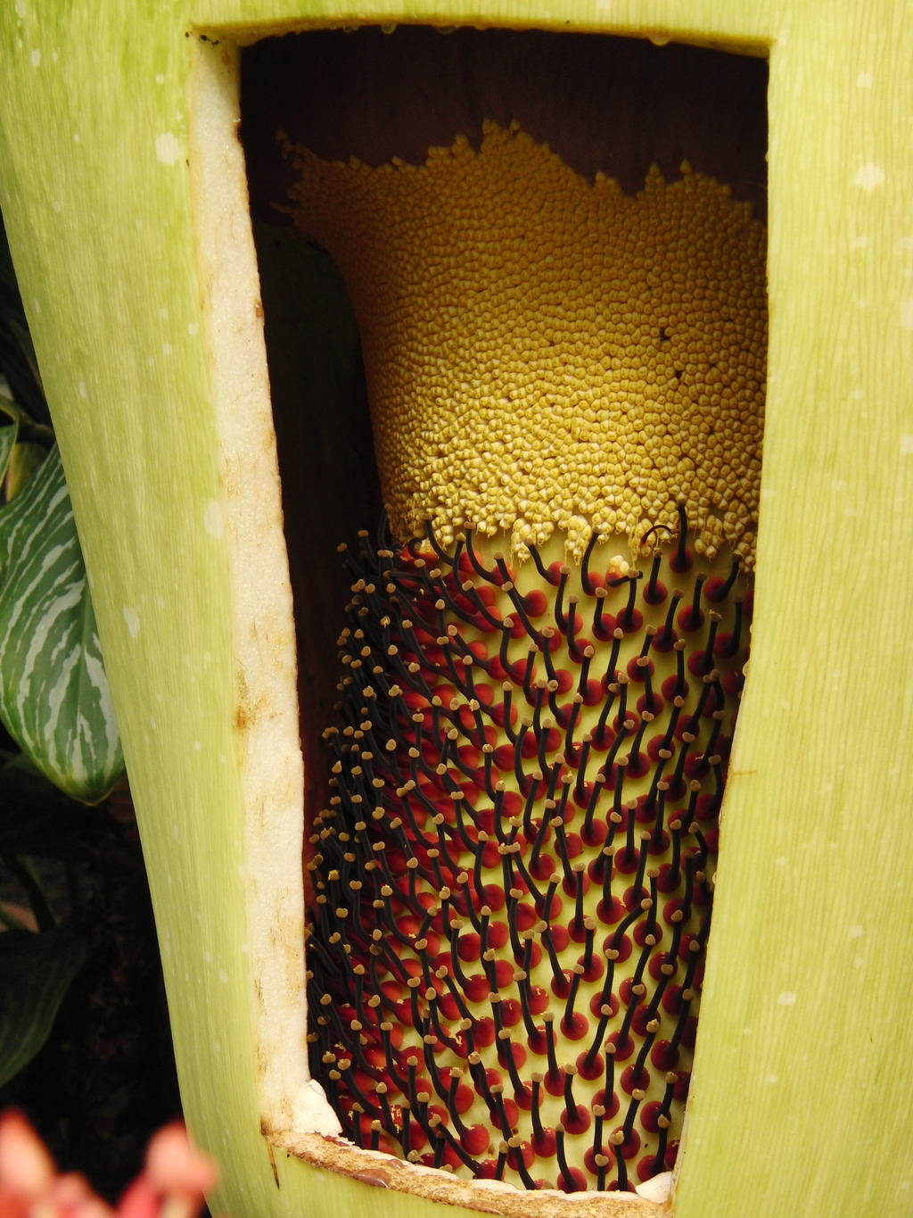 Amorphophallus titanum flowering in June 2012 in the Botanic Garden of Bonn (Germany)